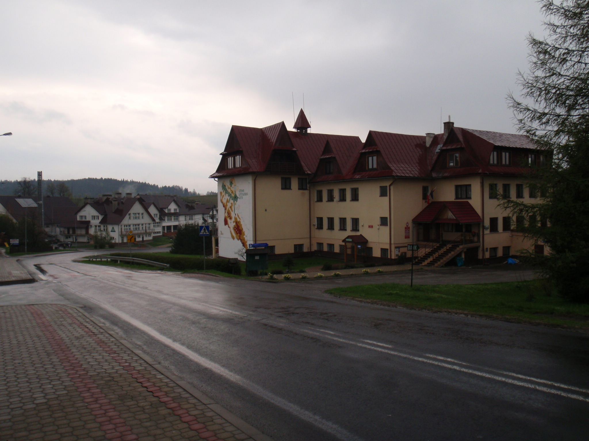 Gmina Lutowiska office - right, and school in Lutowiska - left